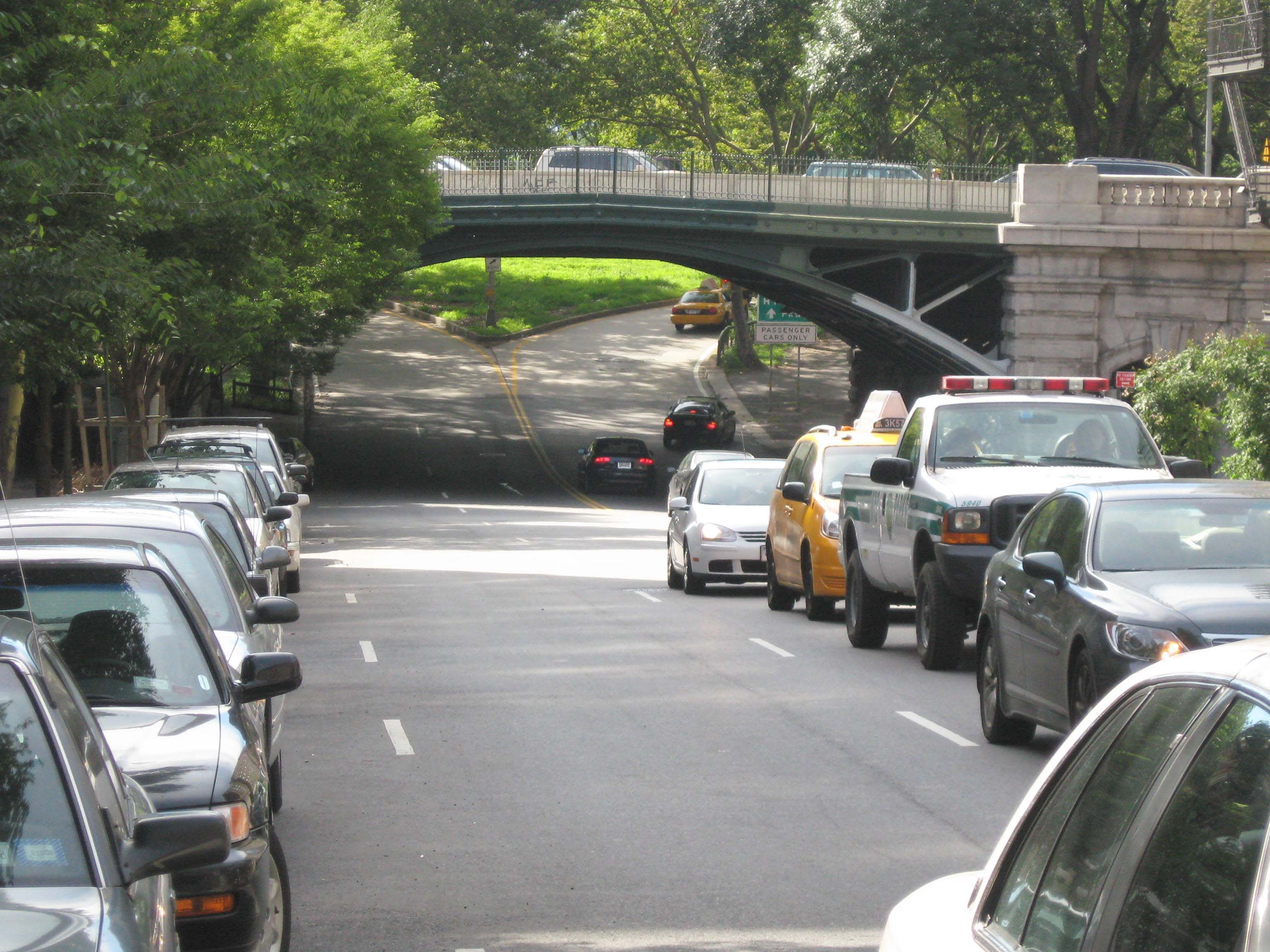 Looking west on an early afternoon as Wen:96th Street (Manhattan) goes under Riverside Drive and into Henry Hudson Parkway.